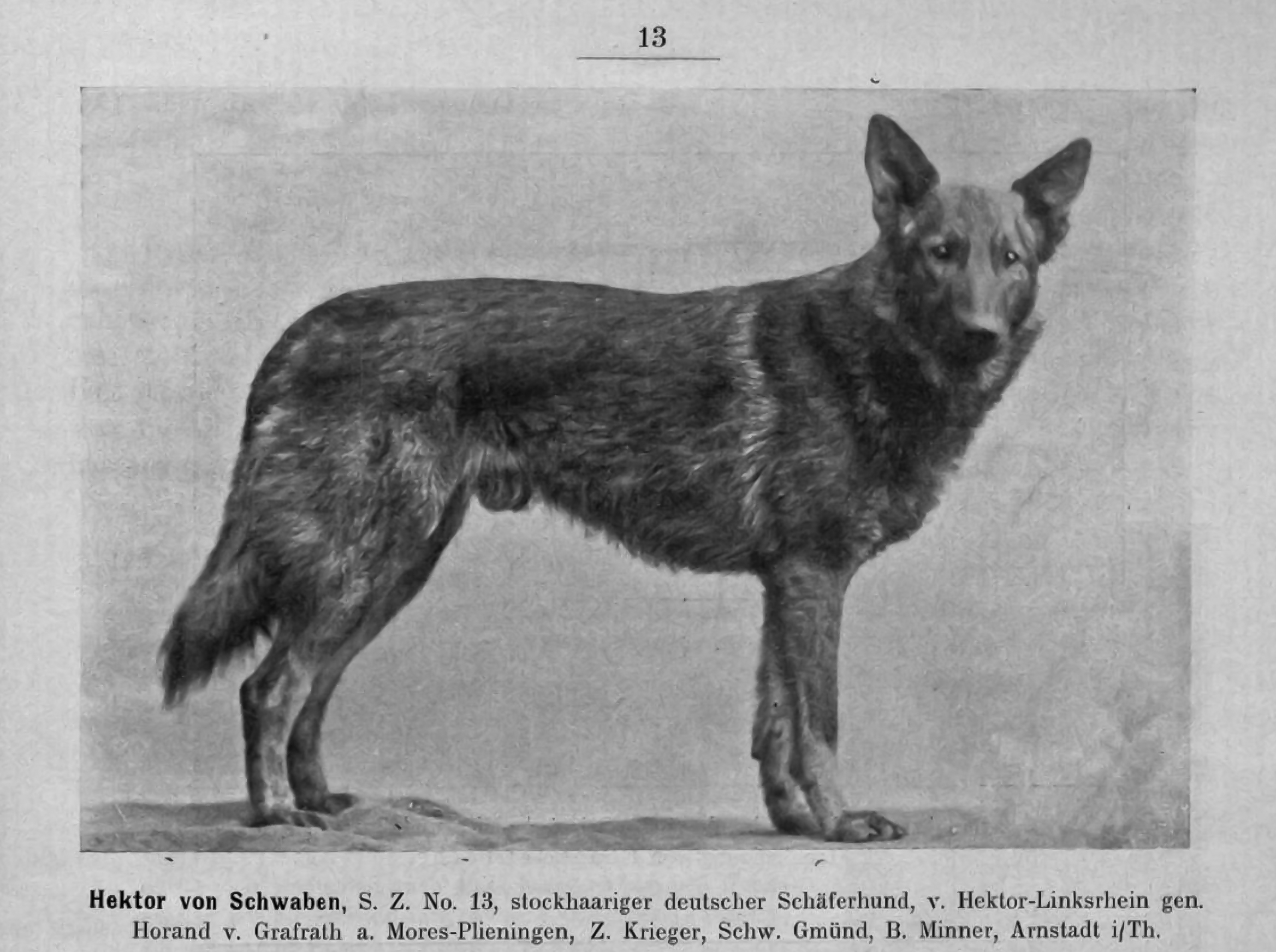 Hektor von Schwaben